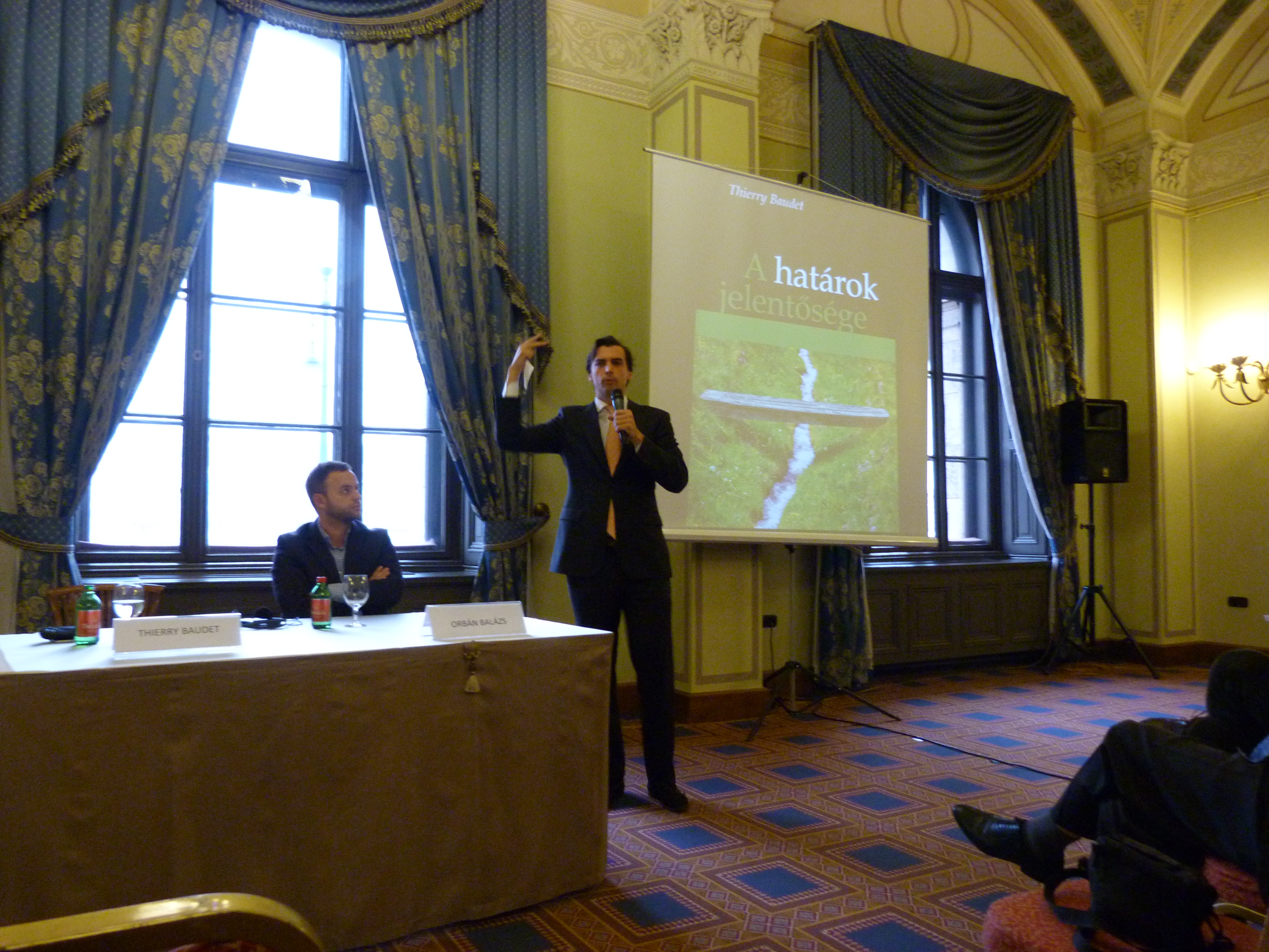 Live on the 8th of February, 2016. Hungarian Academy of Sciences. Századvég Alapítvány. Thierry Baudet, the Dutch journalist, broadcaster and author argued that national borders need to be maintained if representative government is to survive. To uphold borders is to claim jurisdiction; to claim the right to decide on the law. As nation state makes such a claim, it seeks jurisdiction over a particular territory. Borders work two-ways, and while they grant the nation state exclusive jurisdiction, they also limit the nation state’s claims to the designated territory. Supranationalism and multiculturalism undermine the idea of exclusive territorial jurisdiction. Supranationalism grants institutions the power to break through national borders and to overrule the nation state’s territorial arrangements. In this way, borders become increasingly porous. Multiculturalism, meanwhile, not only deligitimizes the nation state’s borders by weakening the collective identity of the people living behind them; it also encourages religious sub-groups to invoke rules from beyond the nation state’s borders, thereby undermining the very idea of territorial jurisdiction. ‘God’s heart has no borders’, to put it bluntly.1 Supranationalism and multiculturalism are thus antithetical to national sovereignty and to the borders therein implied. Supranationalism dilutes sovereignty, and so brings about the gradual dismantling of borders from the outside; multiculturalism weakens nationality, thus delegitimizing their existence altogether from the inside. !e idea of political organization that fundamentally opposes supranationalism and multiculturalism – the idea of the nation state – has been declared ‘outdated’ and ‘irrelevant’ by an overwhelming number of commentators. In: )